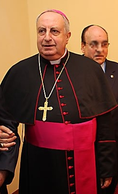 Mons. Salvatore Nunnari, Archbishop of Cosenza-Bisignano, Italy